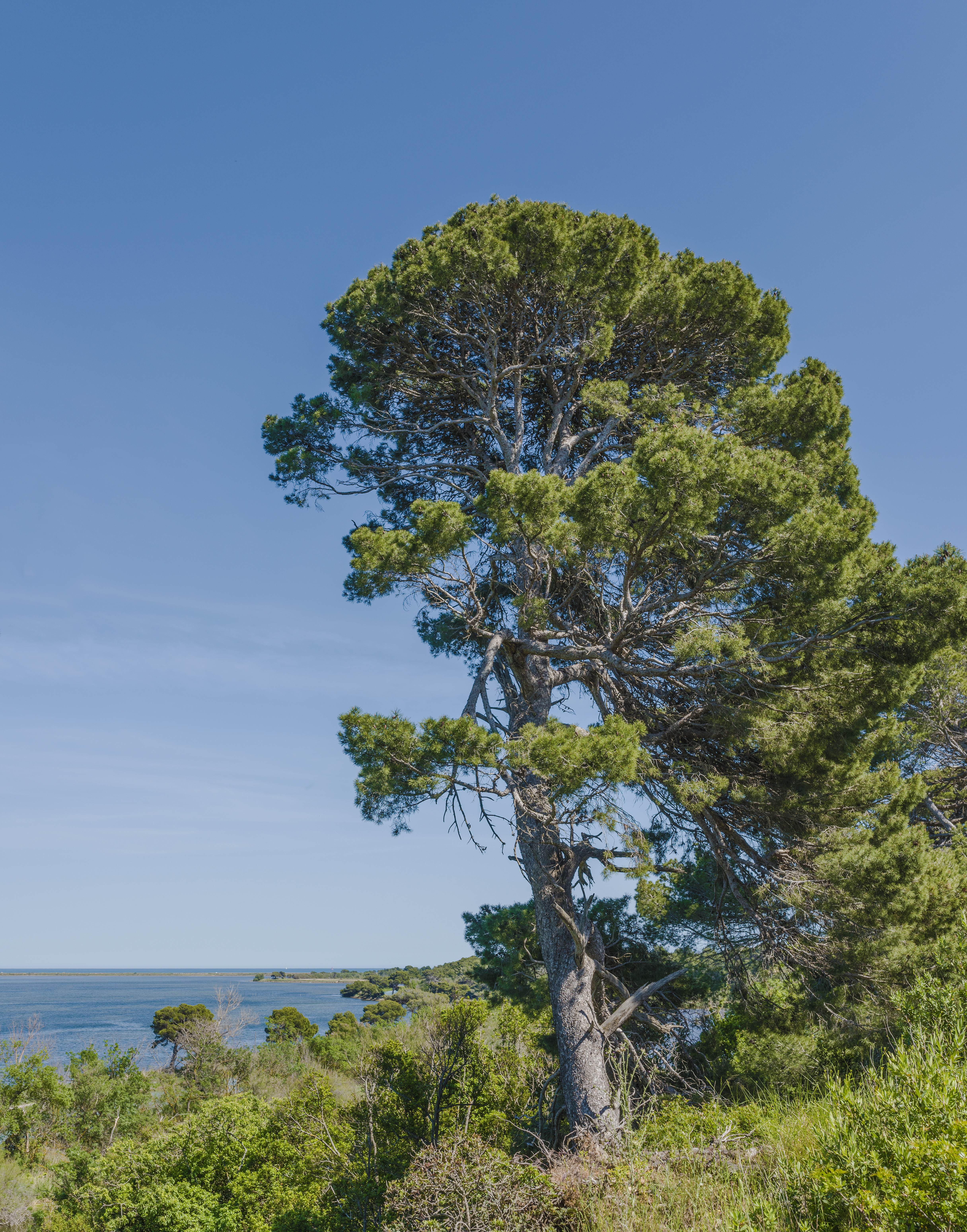 An Aleppo Pine (Pinus halepensis). In the left background there is the Étang de l'Ayrolle. Sainte Lucie regional nature reserve. Port-la-Nouvelle, Aude, France. Narbonnaise en Méditerranée Regional Natural Park.